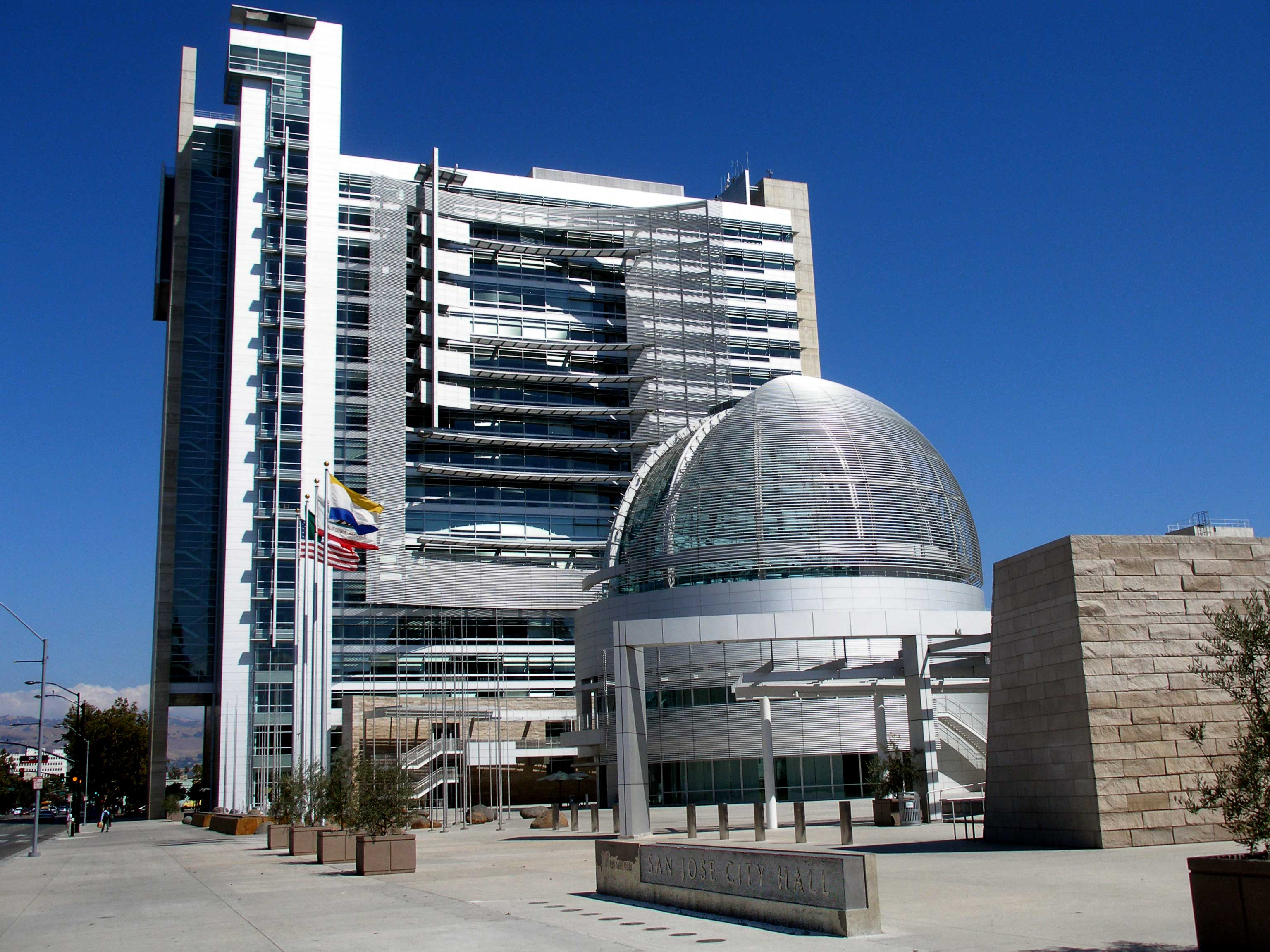 The new City Hall of San Jose. The perspective is west down East Santa Clara Street towards Fifth Street.